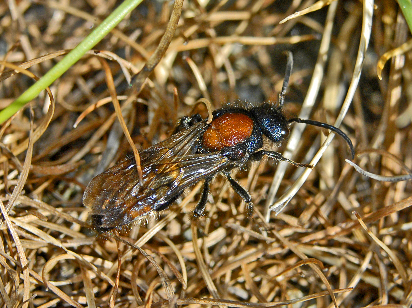 Male of Mutilla europaea. La Thuile, Aosta, Italy